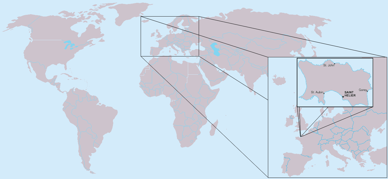 Location of Jersey. Originally created for English Wikipedia by Vardion.